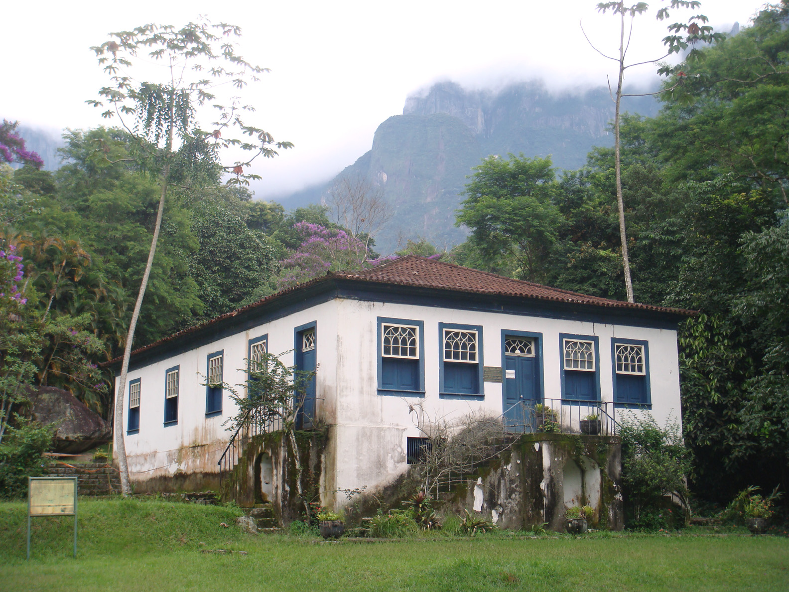 Manor house inside Serra dos Órgãos National Park (Parque Nacional da Serra dos Órgãos), Guapimirim, Brazil